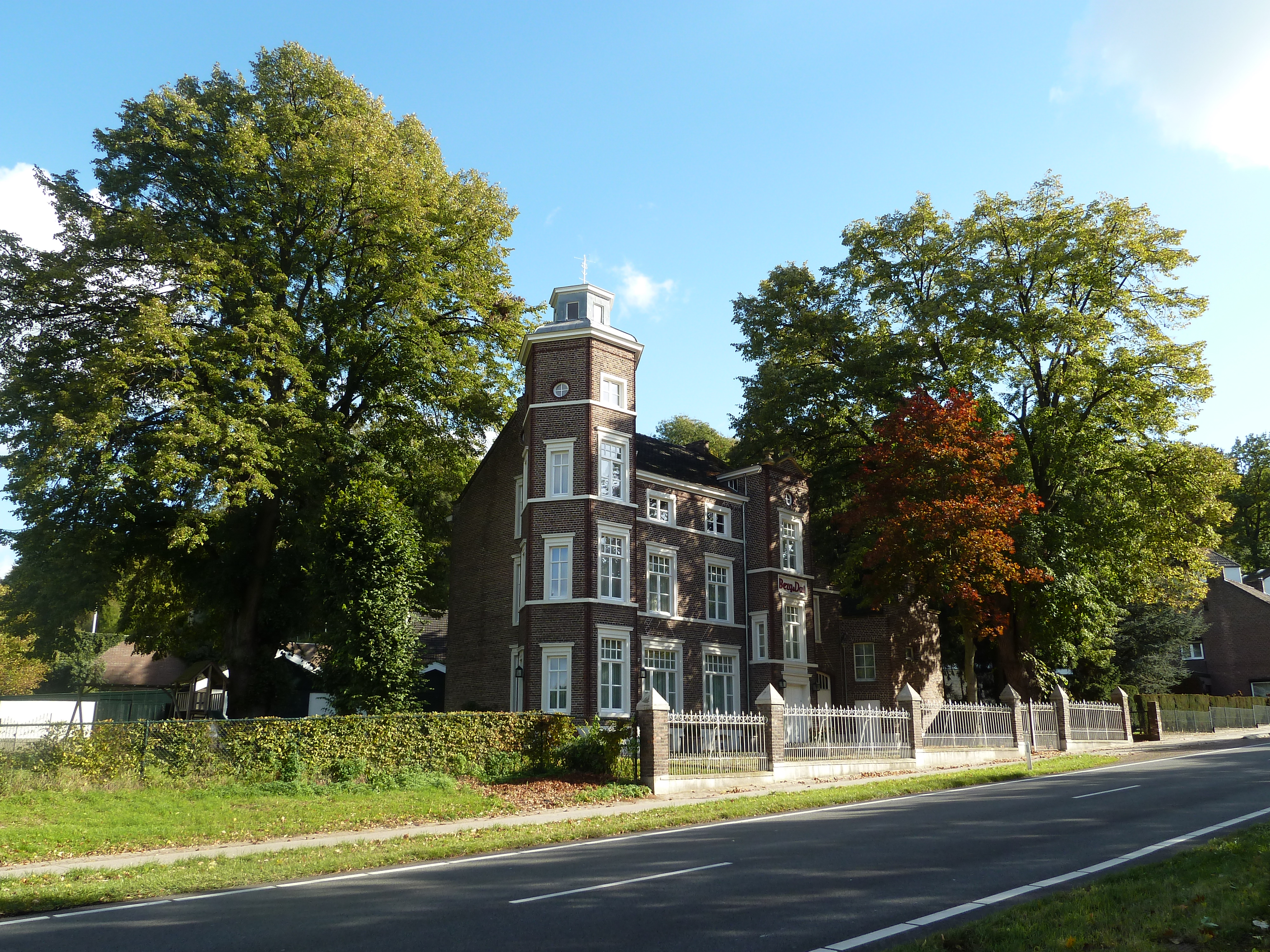 Rijksweg 5A, Cadier en Keer, Limburg, the Netherlands